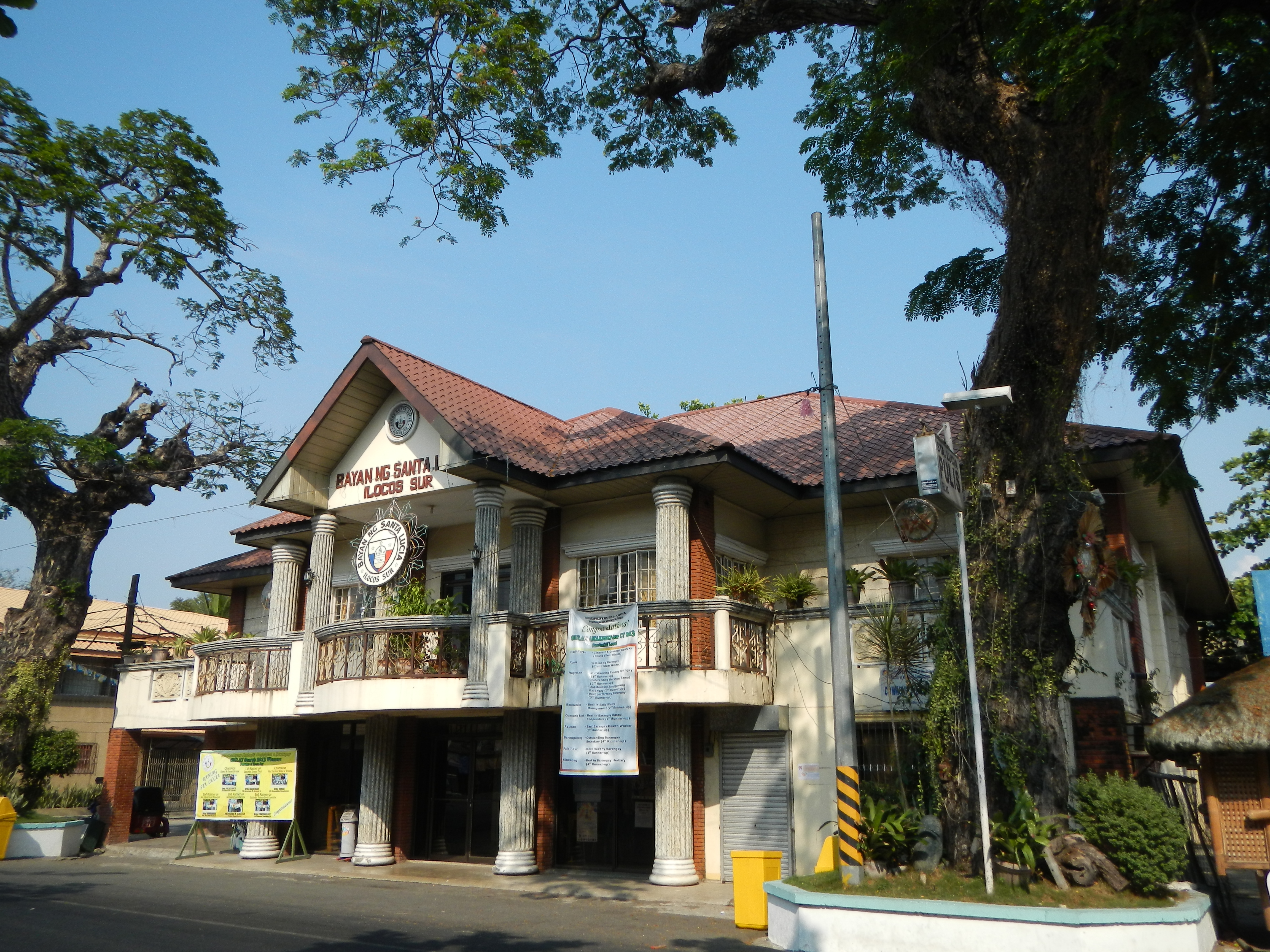 Barangay Ayusan and Barangay Burgos, Centro, Santa Lucia Town Hall Complex, Compound, Town Proper along the National Highway, Pan-Philippine Highway in front of the Santa Lucia People's Park (Santa Lucia, Ilocos Sur) Santa Lucia, Ilocos Sur, Ilocos Sur province, beside the oldest ancestral house and the Saint Lucy Parish Church Vicariate of St. Joseph Roman Catholic Archdiocese of Nueva Segovia Sta. Lucia F-1586 : 2712 Ilocos Sur, Philippines Titular: St. Lucy, Dec. 13 Parish Priest: Msgr. David William V. Antonio Parochial Vicar: Father Jeric Jaramillo Vicariate of St. Therese, Santa Lucia, Ilocos Sur, Ilocos Sur province.